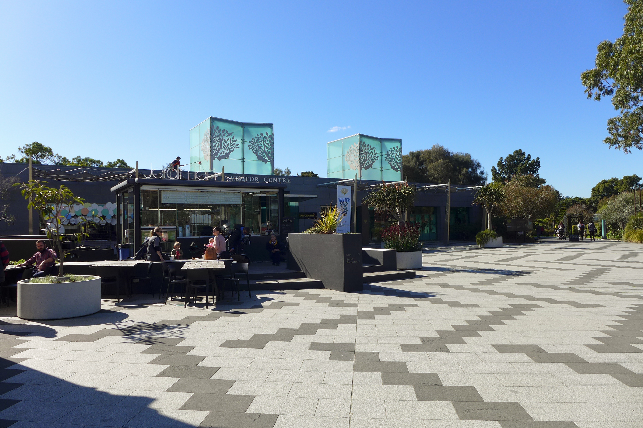 Royal Botanic Gardens Melbourne Visitor Centre